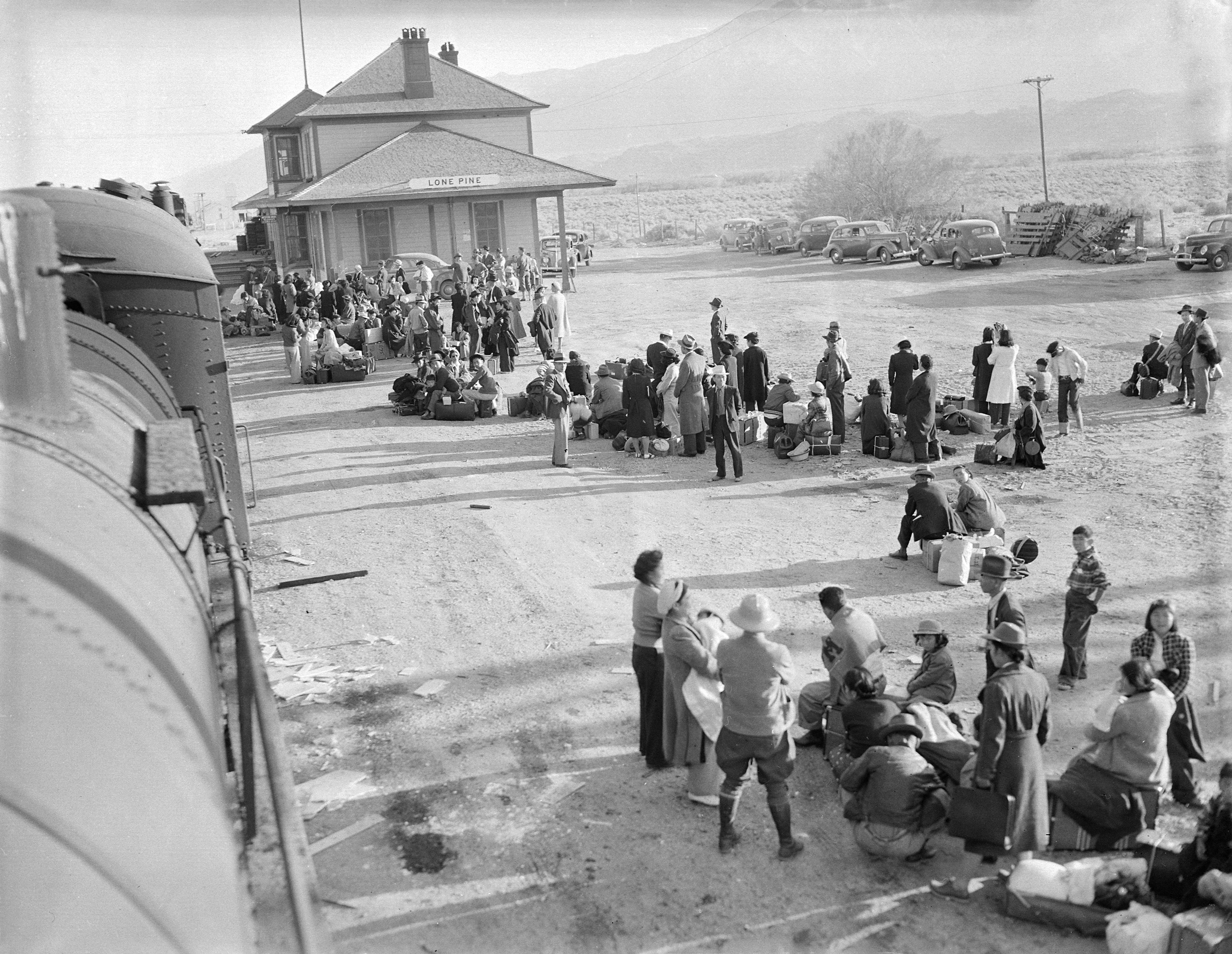 Scope and content: The full caption for this photograph reads: Lone Oine, California. Evacuees of Japanese ancestry waiting to board buses which will take them to the War Relocation Authority center at Manzanar, California.